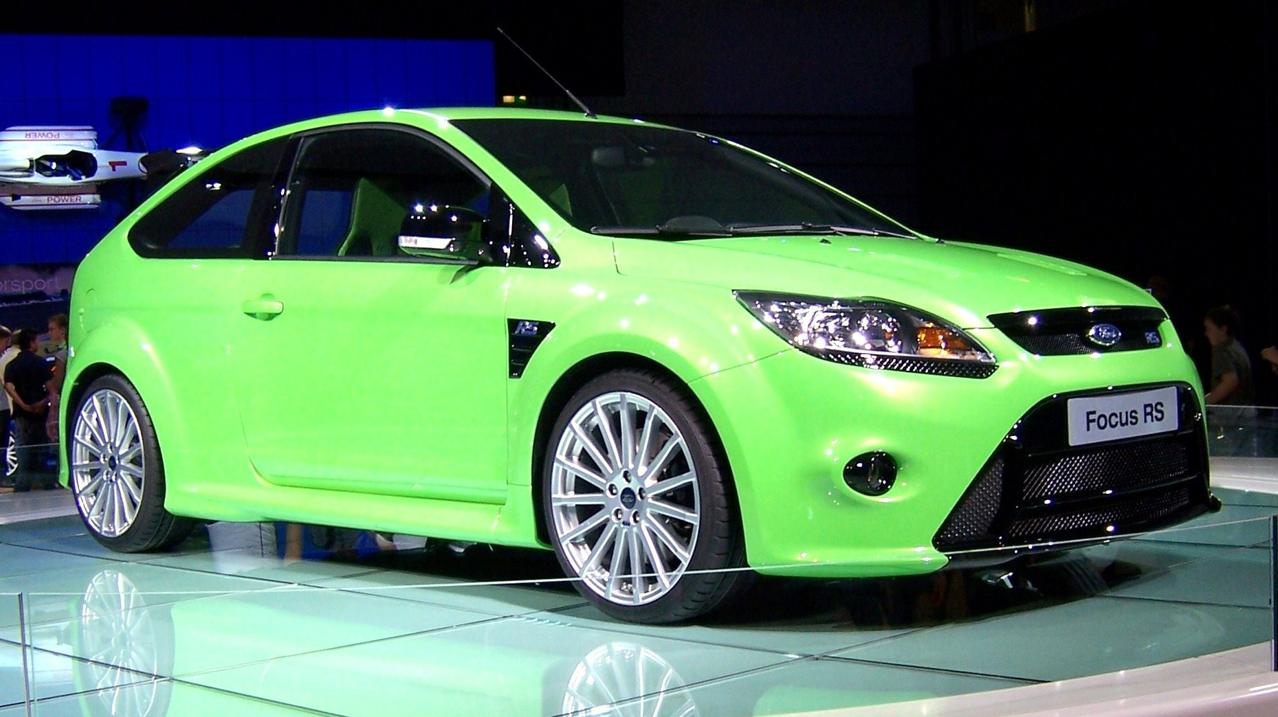 Ford Focus II RS